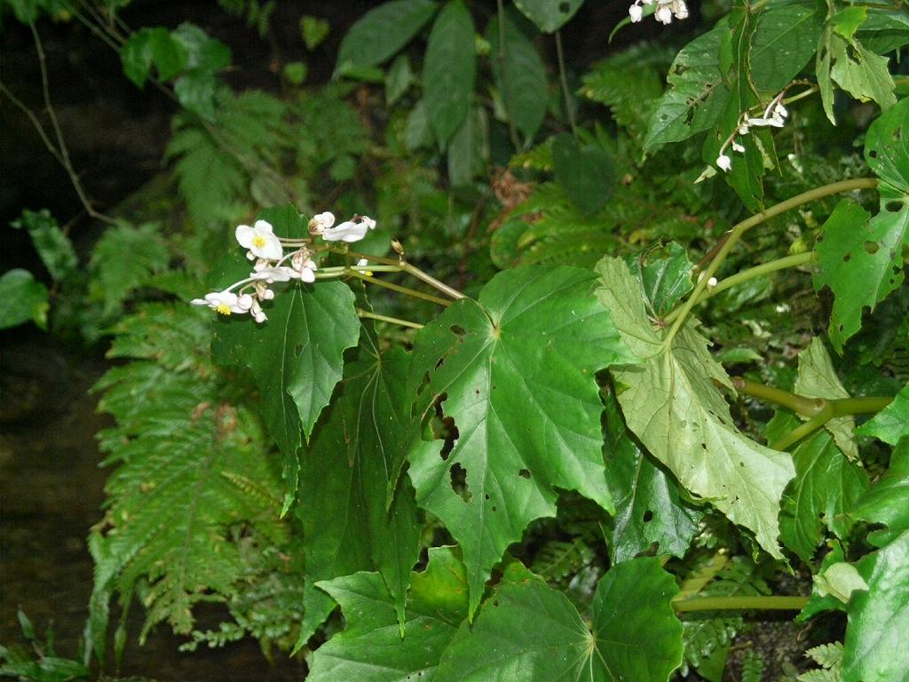 Begonia formosana (syn. Begonia laciniata var. formosana) Japanese name:Turuadan：ツルアダン Date;2009,08.10;Iriomote Island, Okinawa prefecture, Japan Author;Keisotyo